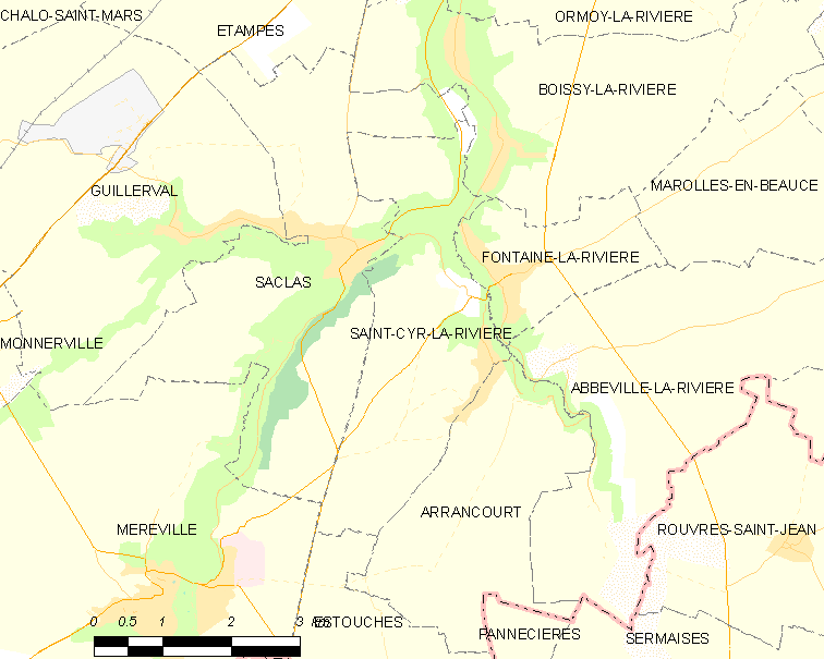 Map of French municipality Saint-Cyr-la-Rivière